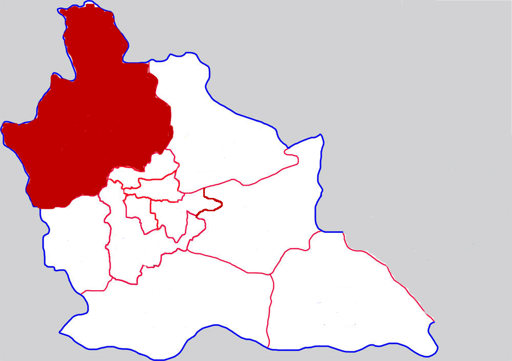 Location of Huixian county-level city in Xinxiang city, China